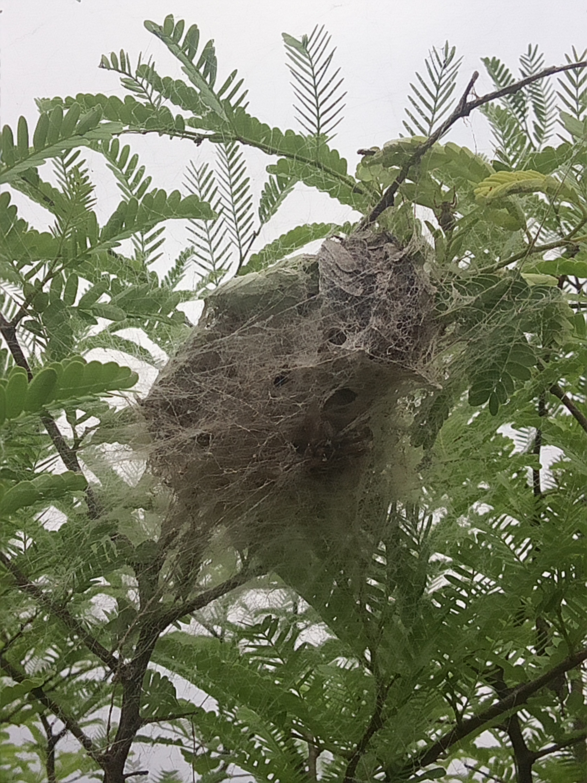 Ant nest